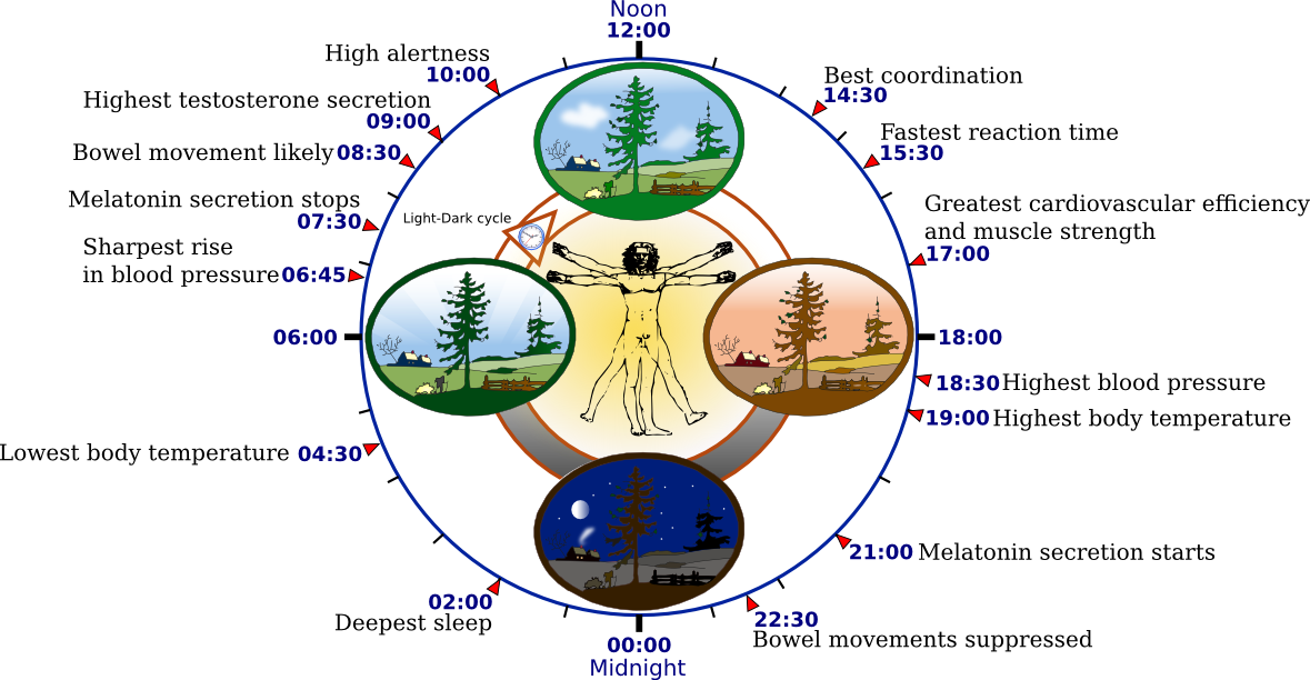 Overview of biological circadian clock in humans. Biological clock affects the daily rhythm of many physiological processes. This diagram depicts the circadian patterns typical of someone who rises early in morning, eats lunch around noon, and sleeps at night (10 p.m.). Although circadian rhythms tend to be synchronized with cycles of light and dark, other factors - such as ambient temperature, meal times, napping schedule and duration, stress and exercise - can influence the timing as well.